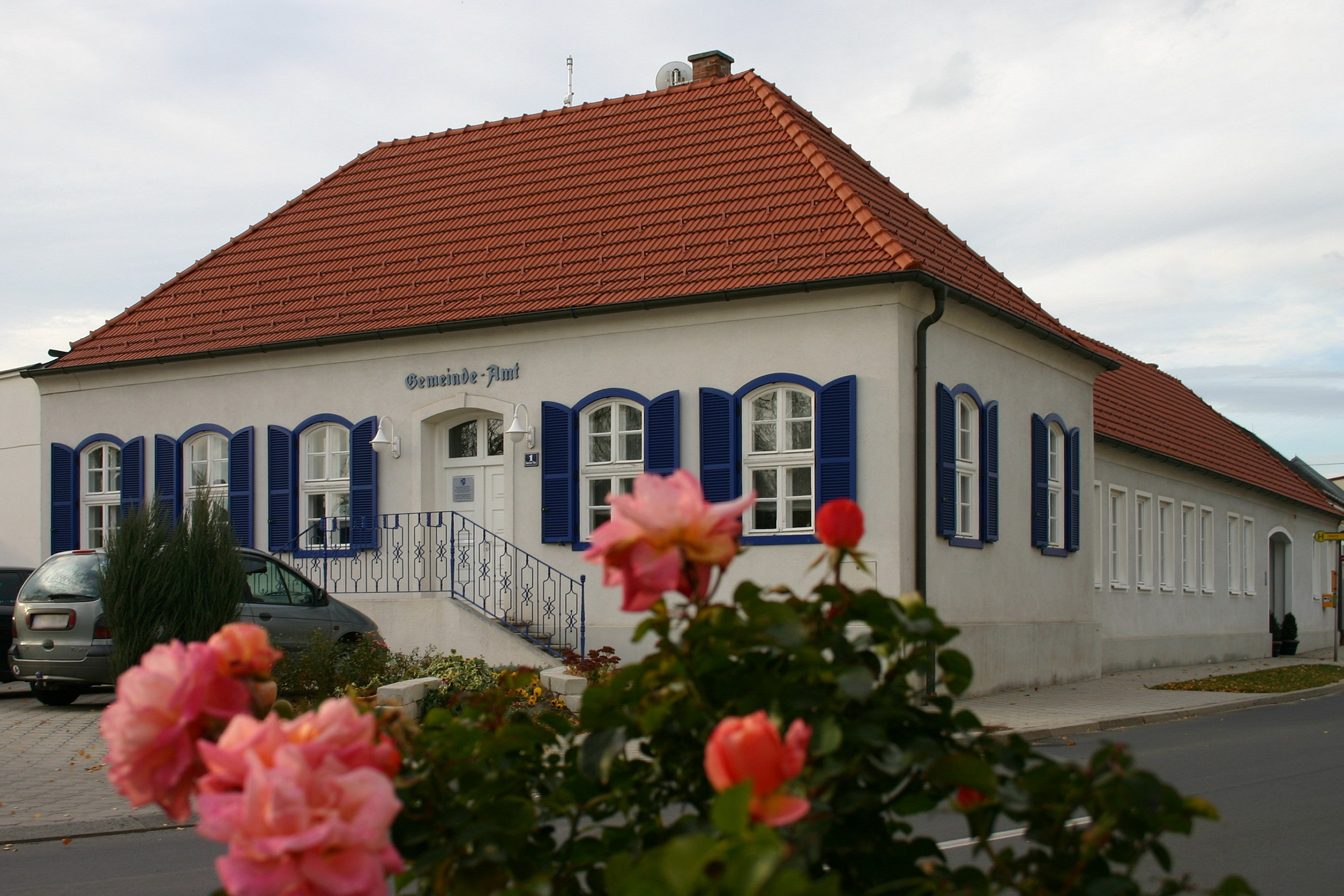 Raiding - municipal office